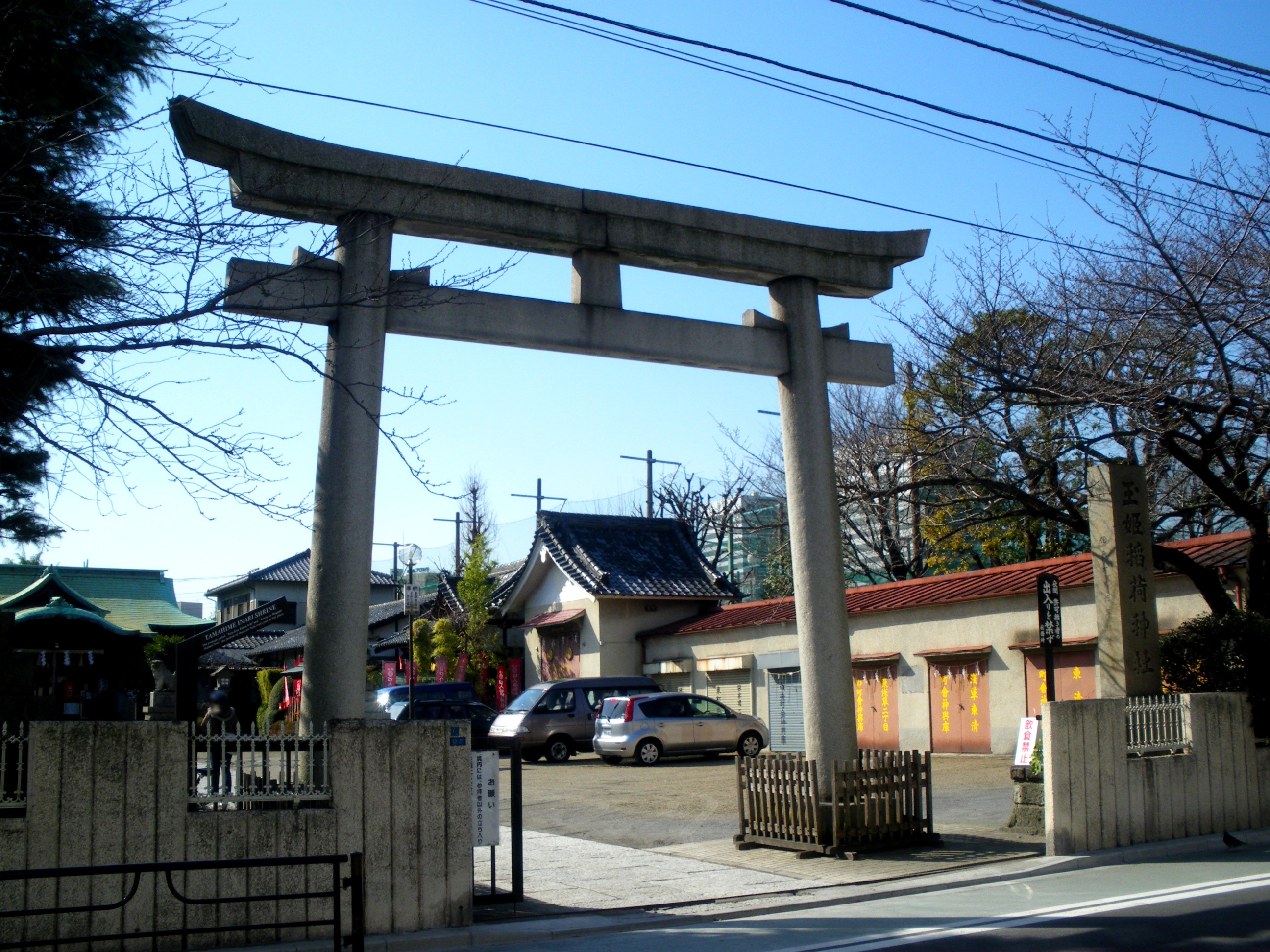 Tamahime Inari Jinja(Kiyokawa,Taito,Tokyo)